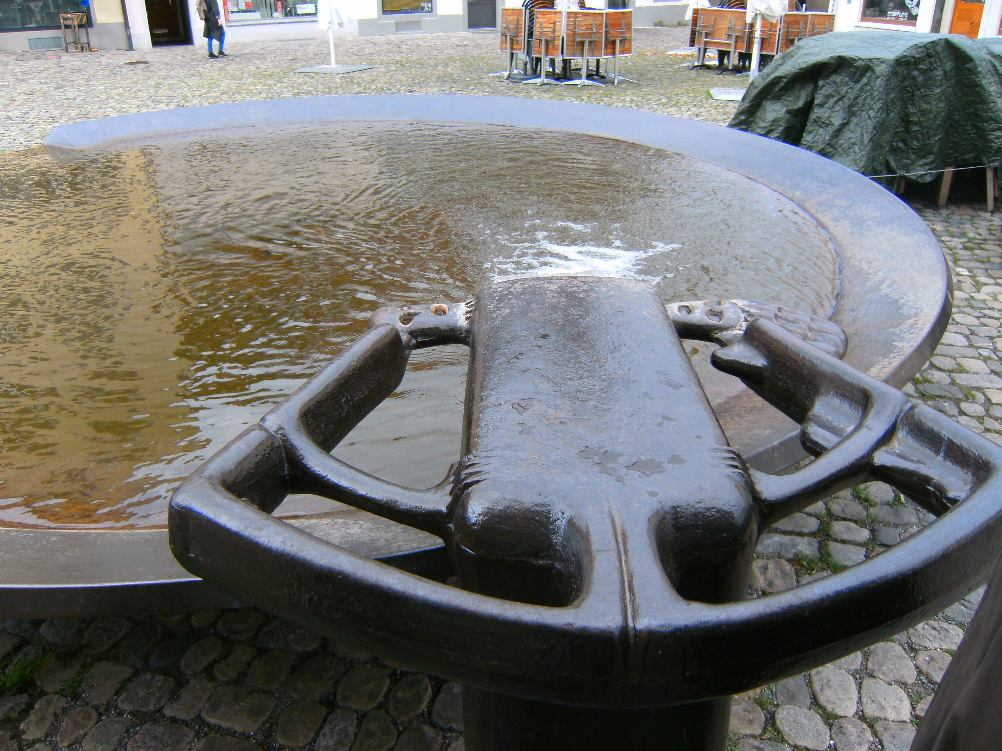 Konstanz, Germany, Münsterplatz: Brunnen (fountain) by Franz Gutmann. Adam and Eve on rthed gargoyle.